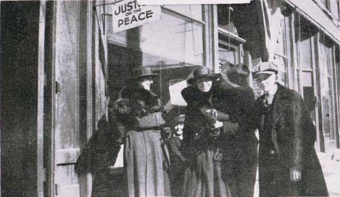 Students (possibly not all are students?) near the Justice of the Peace, from the 1918–1919 Sturgeon Bay High School yearbook. Although this picture appears serious, a mock wedding with another student pretending to be the minister appears in a another picture in another volume of the Flashes yearbook, so there is some uncertainty. The date of April 30, 1918 appears below, but may or may not refer to this picture. Elsewhere in this yearbook it states that the school year had been broken up due to an enforced absence of 11 weeks [Spanish influenza].